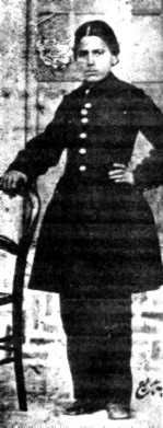 Picture of Mirza Aqa Buzurg at the age of 15, in the Persian empire sometime in the 1860's. Originally printed on pg. 372 of: Balyuzi (1980) Bahá'u'lláh, King of Glory, Oxford, George Ronald ISBN 0853983283